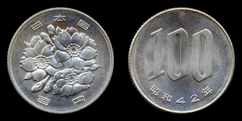 100yen-S42(current coin)